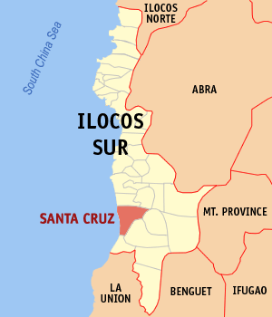 Map of Ilocos Sur showing the location of Santa Cruz